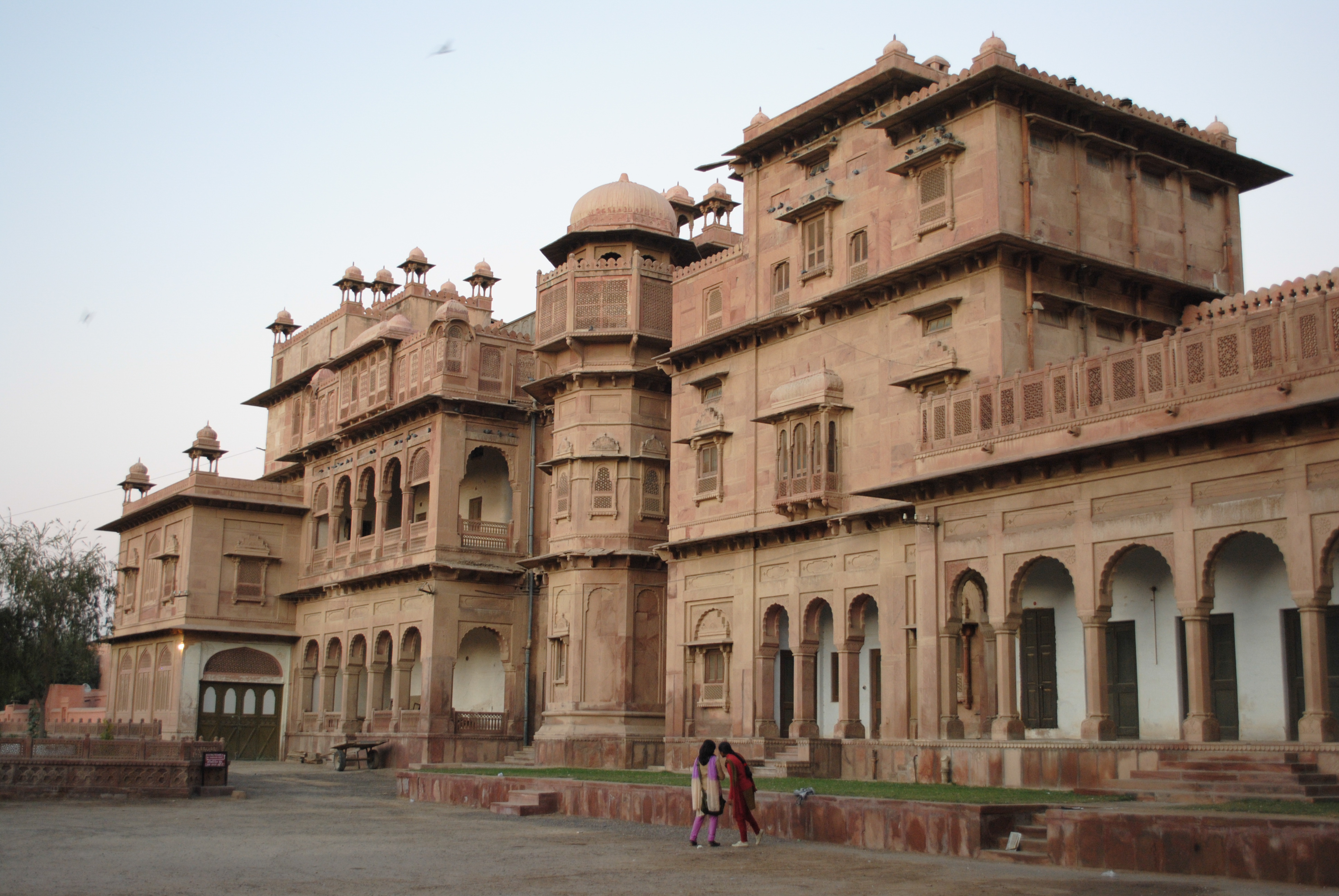 Bikaner fort view